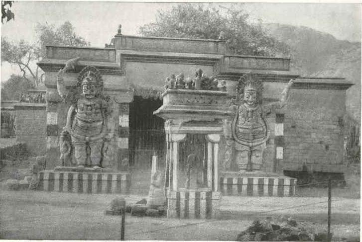 A roadside shrine in India